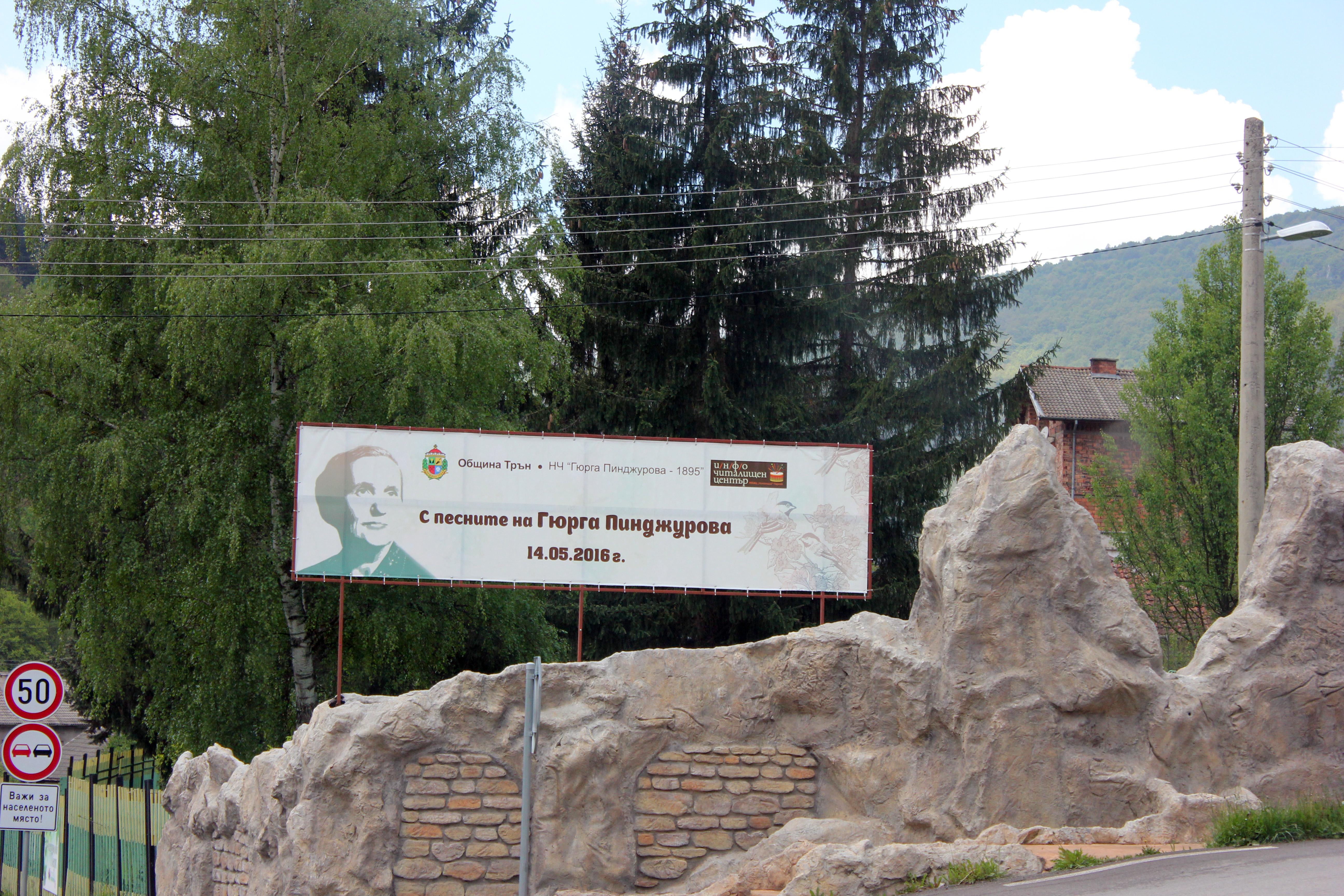 Gyurga Pendzhurova Songs Fest advertising in Tran